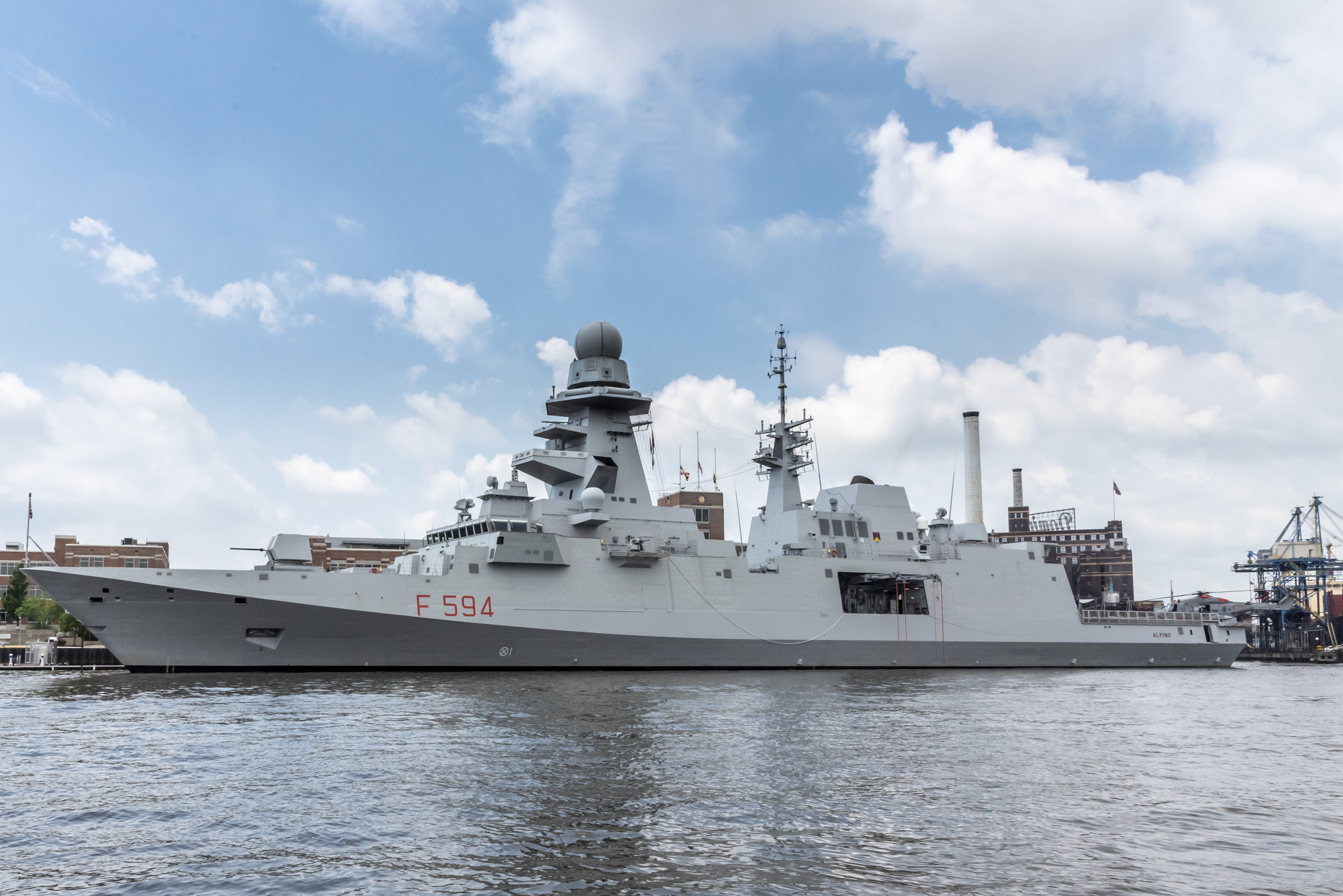 Italian frigate Alpino docked in the port of Baltimore